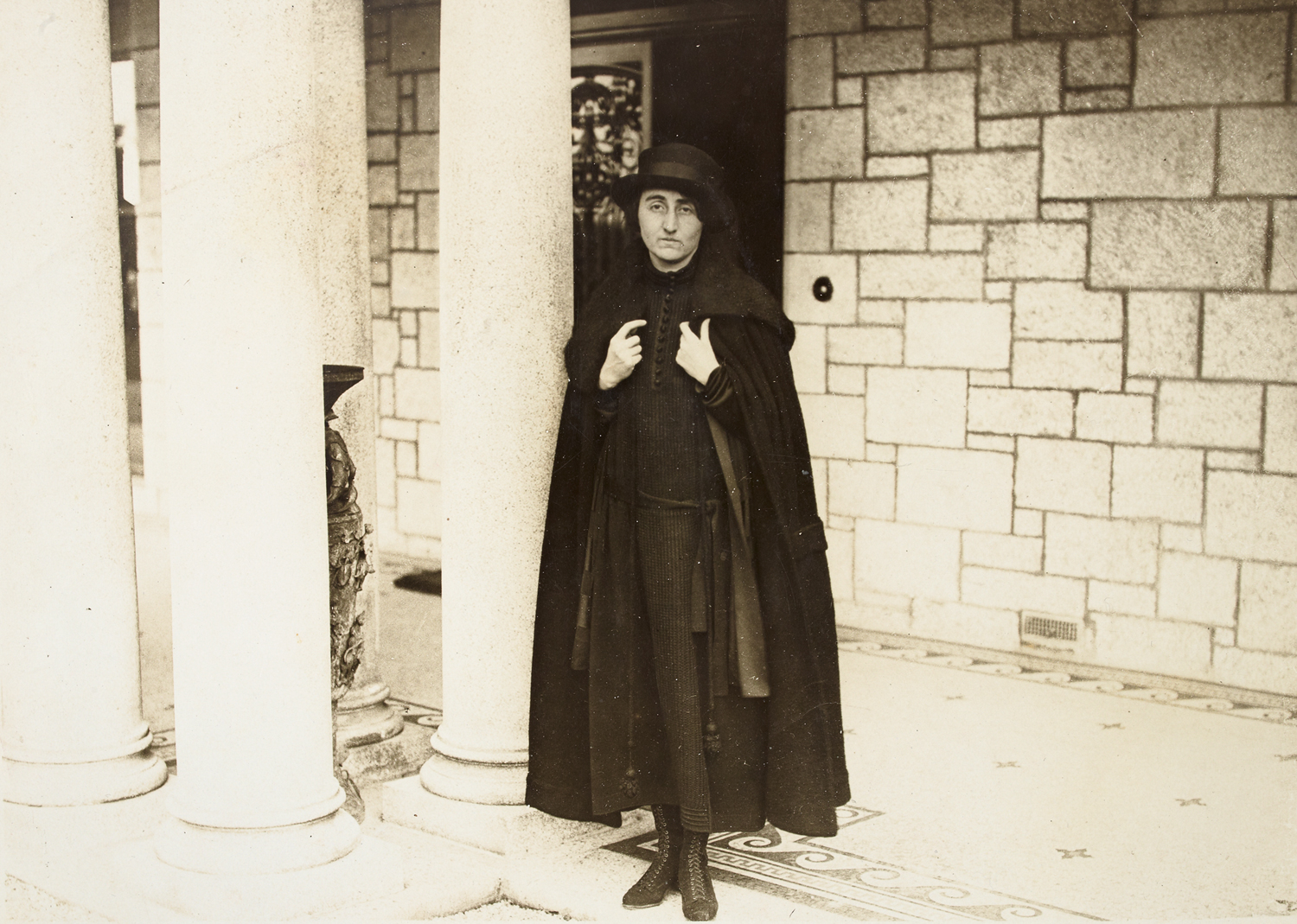 This is the wife (or widow depending on when it was taken) of Richard "Boss" Croker of Tammany Hall in New York fame outside Glencairn, their house in Stillorgan, Co. Dublin. I know there's a story here, and hope you'll help to uncover it... Photographer: W.D. Hogan Date: Earliest possible date is November 1921 to some time in 1922. NLI Ref.: HOG194